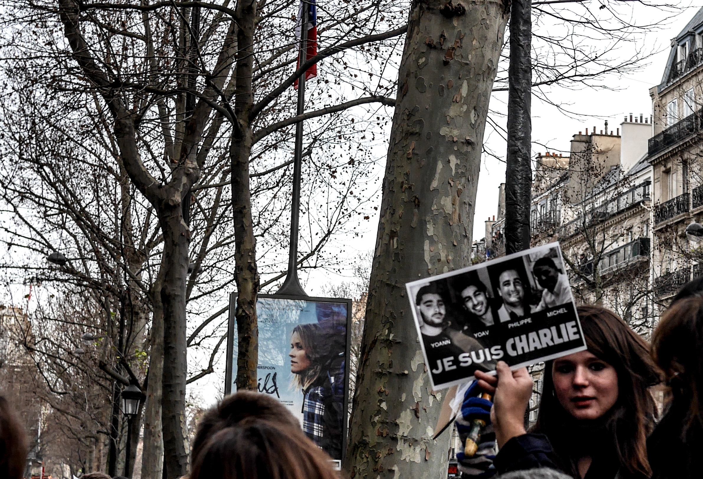 Paris rally in support of the victims of the 2015 Charlie Hebdo shooting, 11 January 2015.